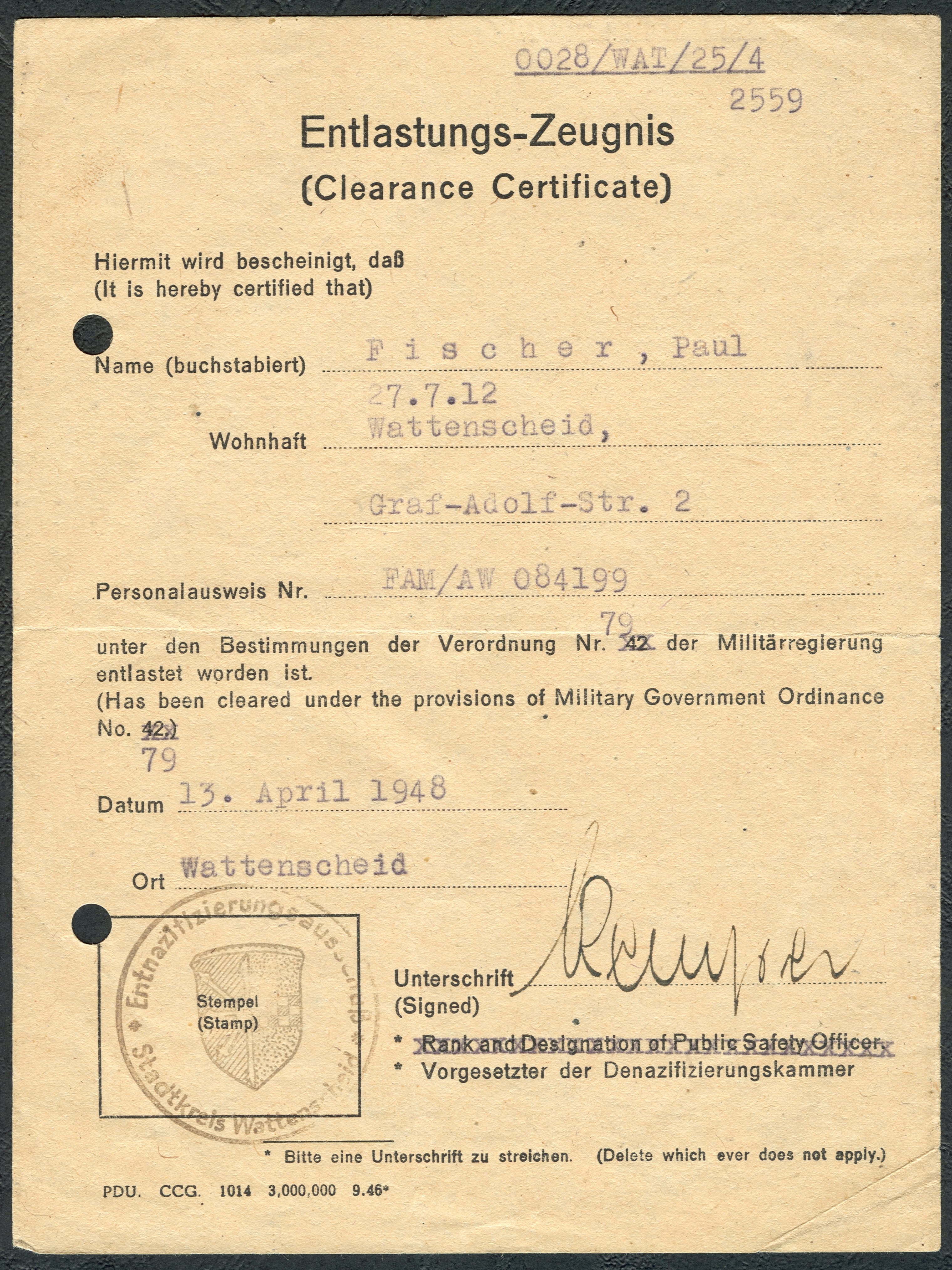 A clearance Certificate issued to Paul Fischer under the provisions of Military Ordinance number 79 (previously 42), by the Wattenscheid Denazification Authority.Details: Number: 0028/WAT/25/4 2559Personal ID Number: FAM/AW 084199Form: PDU. CCG. 1044 3,000,000 9.46*